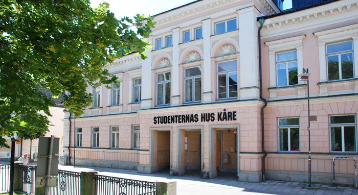 The student union house Kåre in Falun